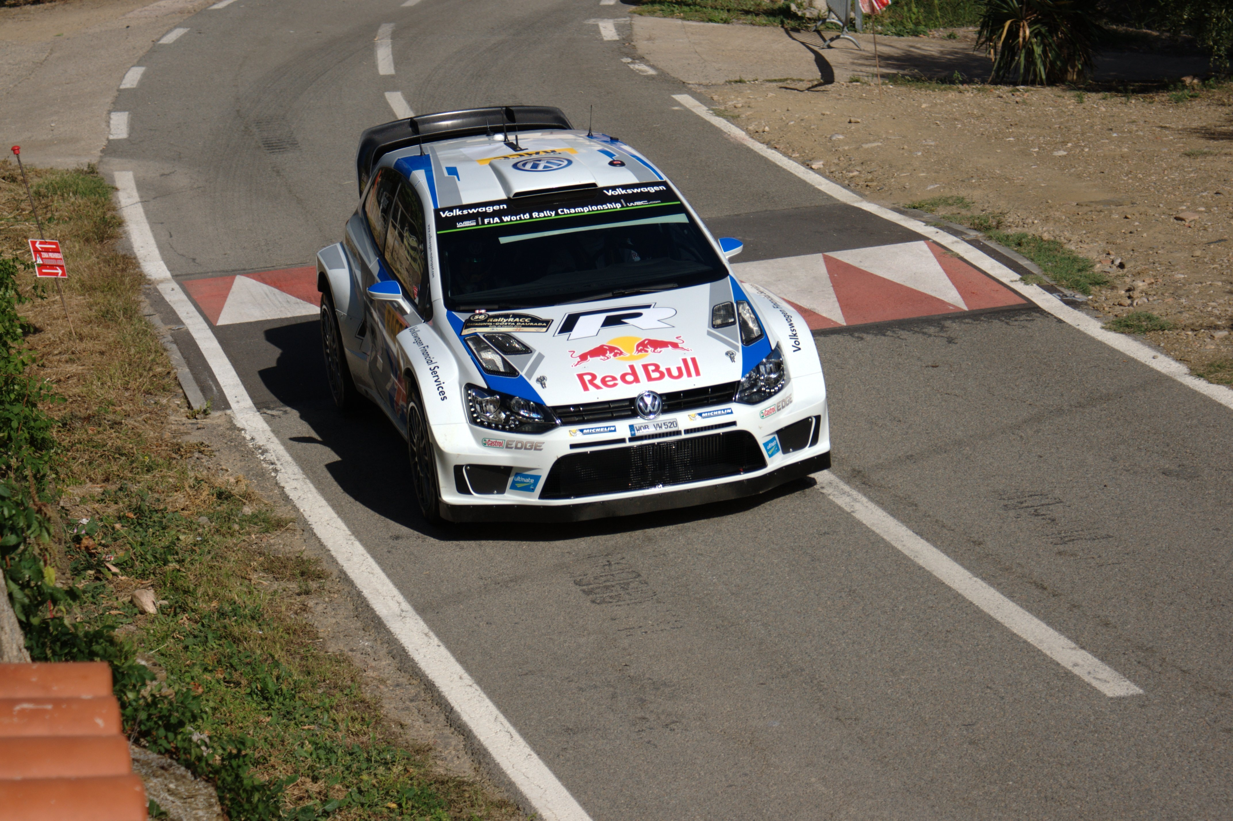 2014 Rally Catalunya Sébastien Ogier